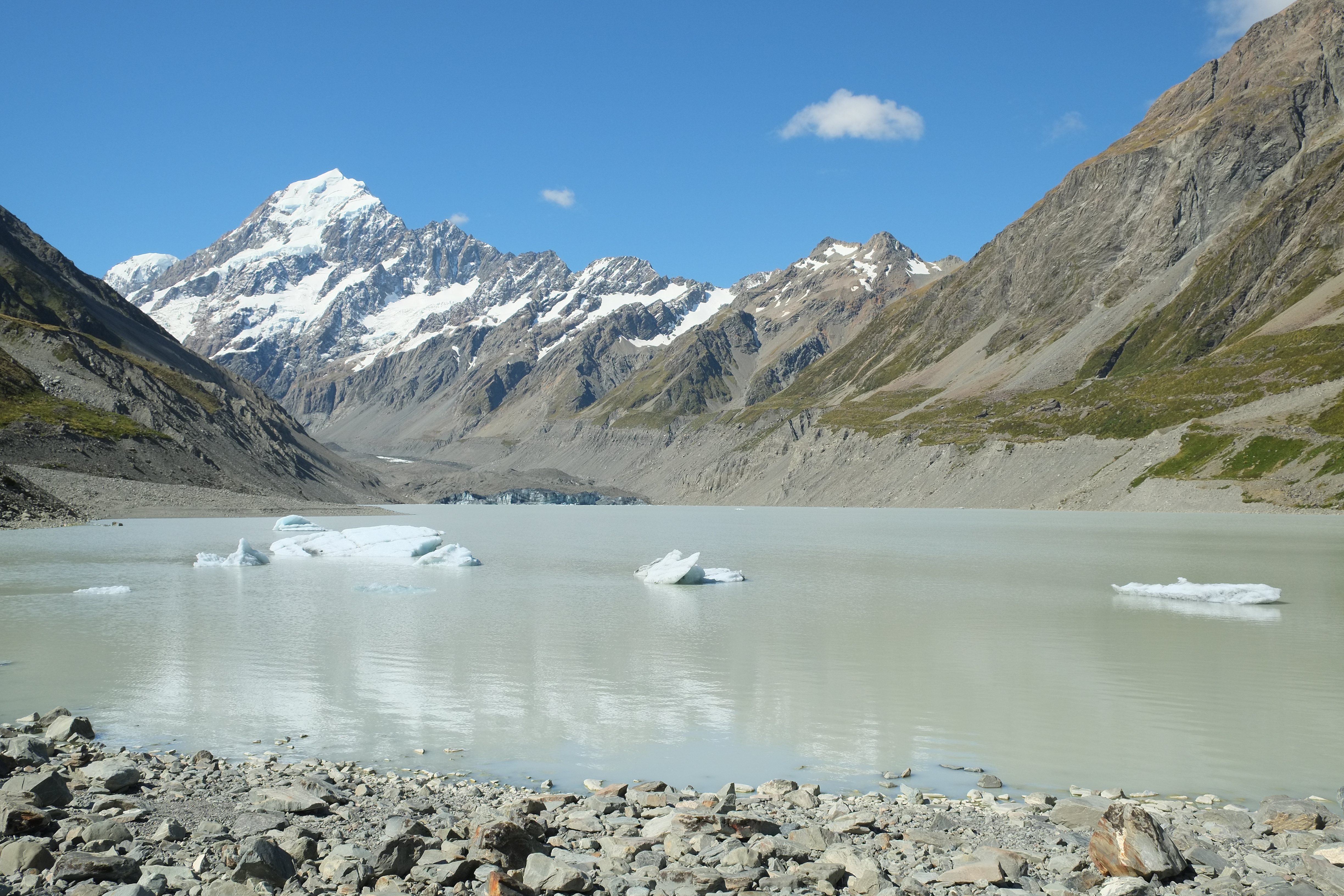 Hooker Glacier Lake in summer 2016, with icebergs floating in the lake